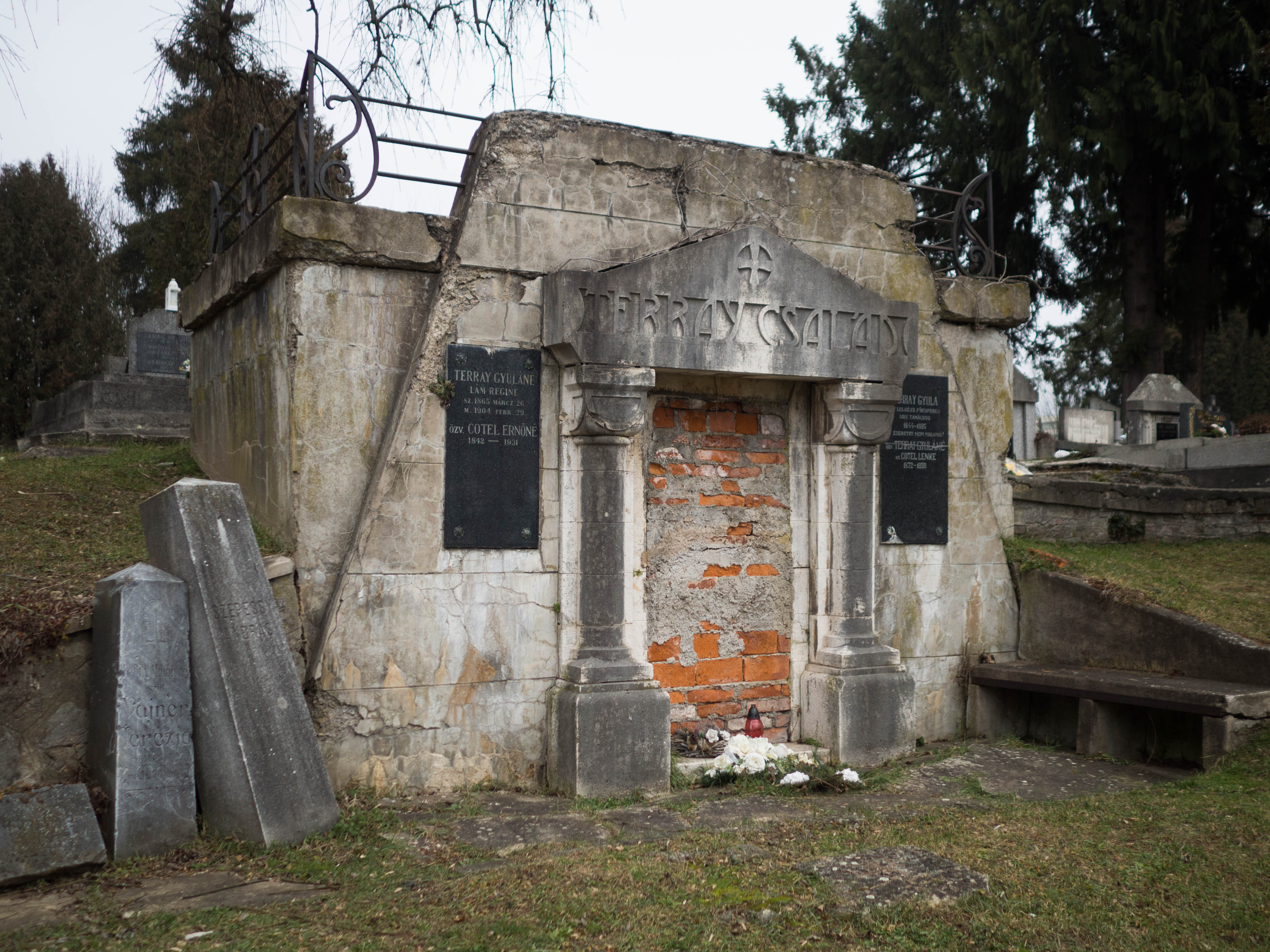 The Terray family tomb in the Rožňava cemetery, Slovakia.